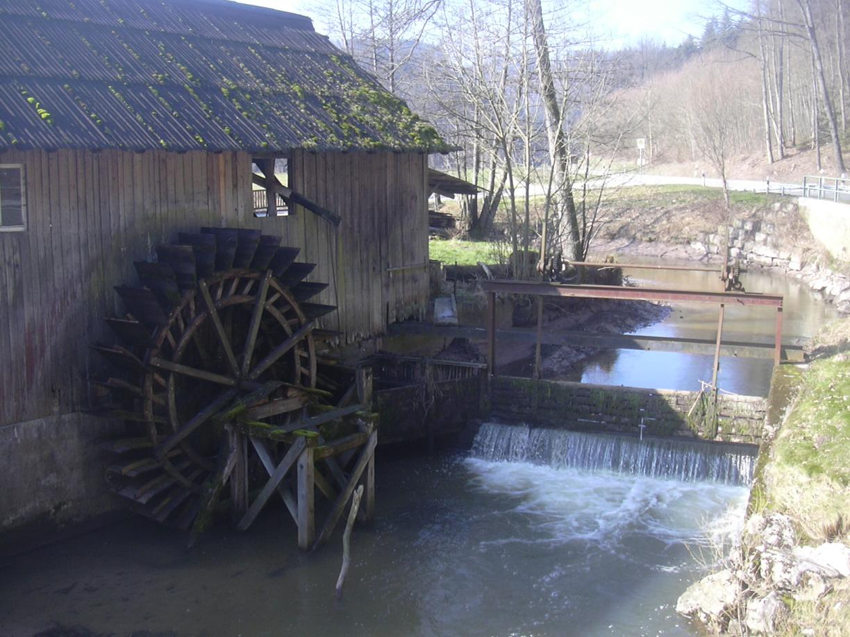 Watermill near Oberrot, Germany